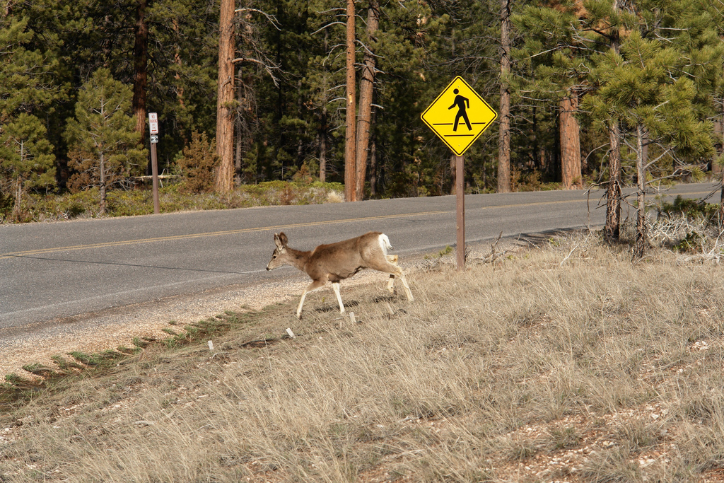 Pedestrian_Crossing-sign and a deer is trying to cross that way